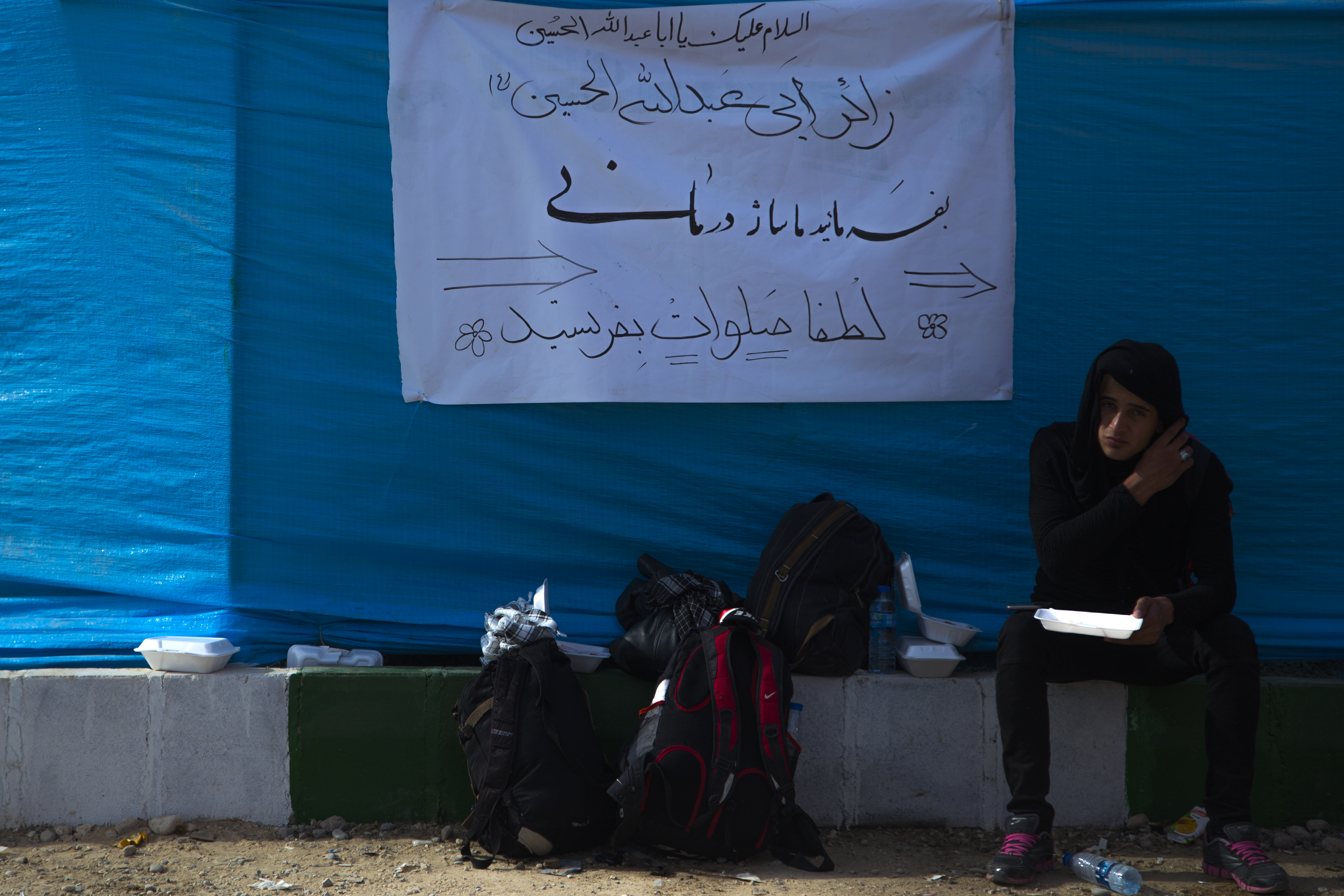 The Arba'een Pilgrimage is the world's largest public gathering that is held every year in Iraq. This Ziyarah (pilgrimage) is held at the end of the 40-day mourning period following Ashura, the religious ritual for the commemoration of the Prophet Mohammad's grandson Husayn ibn Ali's martyrdom in 680. Arba'een marks a "pivotal event in history" in which the pilgrims make their journey to Karbala on foot, where Husayn ibn Ali, the third Imam of Shia, and his companions were killed and beheaded by the army of Yazid I. Some of the pilgrims make their journey from cities as far as Basra, about 500 km away by road.